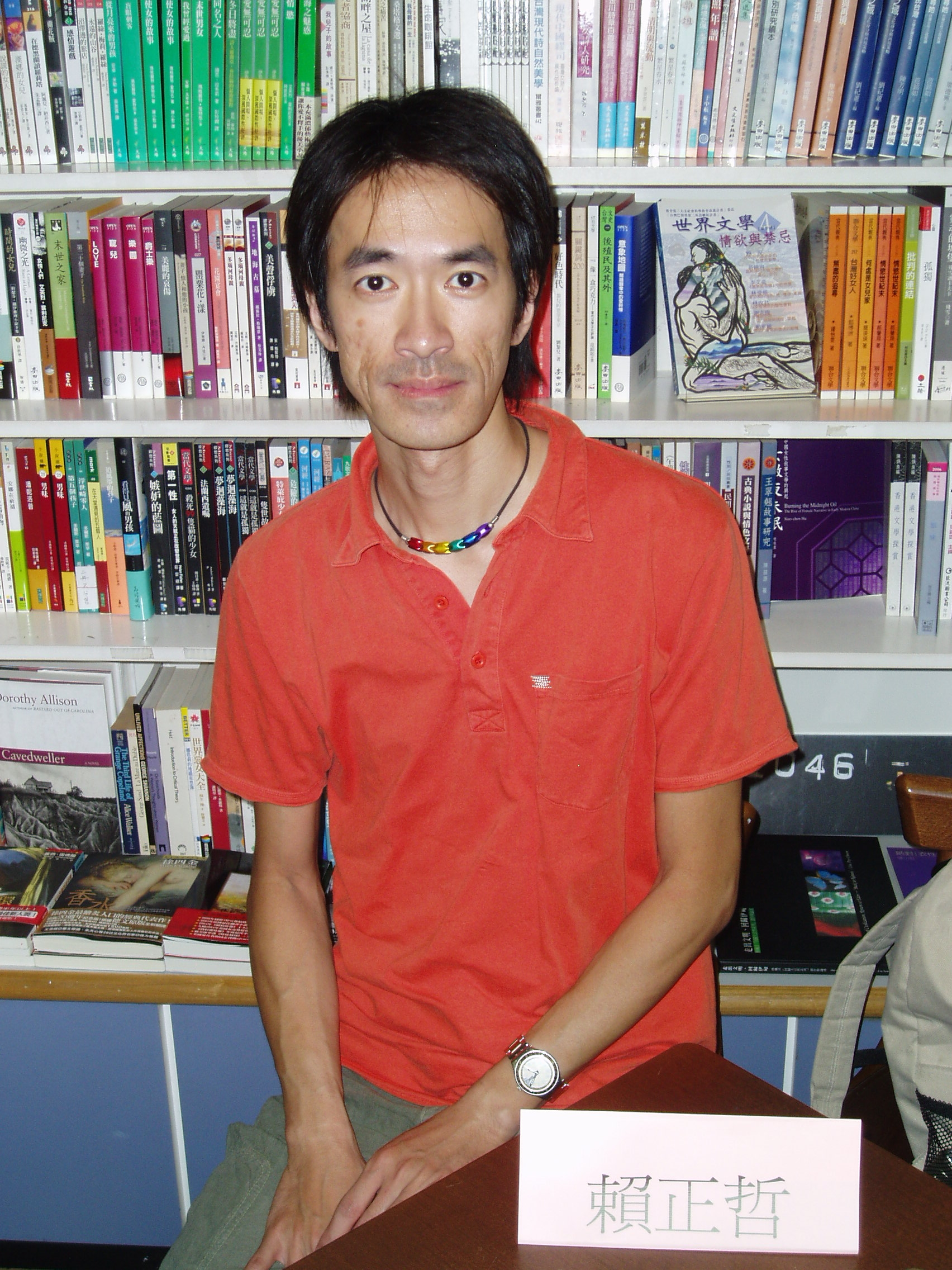 Lai Jeng-jer (賴正哲), owner of Gin Gin's. Photo taken in Fembooks, Taipei city, Taiwan, on 2006-10-1. Mr Lai generously gives permission of release of this photo.